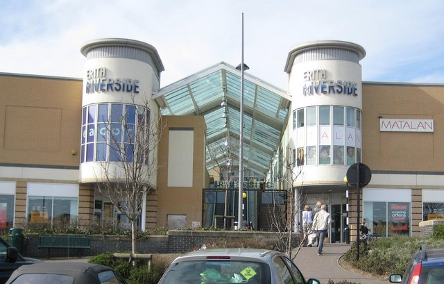 Erith: Riverside shopping centre A modern pedestrianized shopping precinct, viewed from Morrison's supermarket car park.